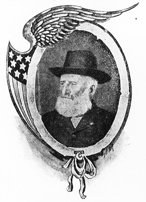 Benjamin Swearer, Seaman, United States Navy. Halftone image published in Deeds of Valor, Volume II, page 7, by the Perrien-Keydel Company, Detroit, 1907. Seaman Swearer was awarded the Medal of Honor for "gallant service" during the capture of Fort Clark, North Carolina, on 29 August 1861. He was a member of USS Pawnee's crew at that time.